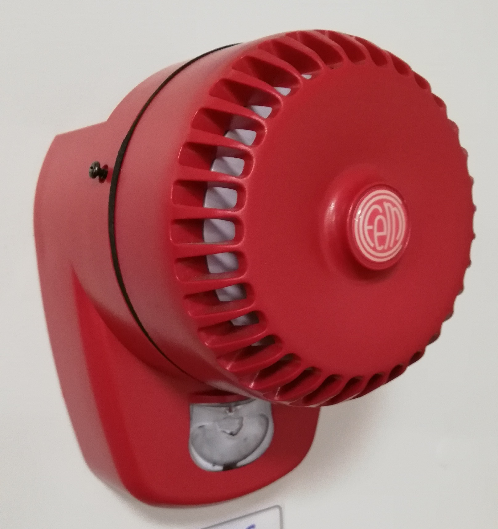 it is an european siren for fire detection system. It was designed and manufactured following standards EN54-3 and EN54-23.